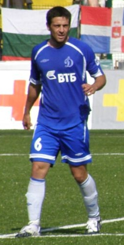 Leandro Fernández in action for FC Dinamo Moscow